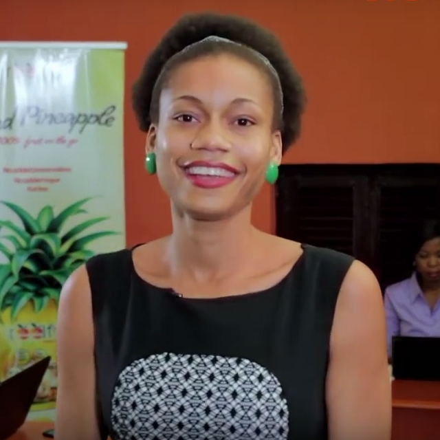 Affiong Williams Young CEO in Nigeria appearing on NDaniTV video about her and her ReelFruit business